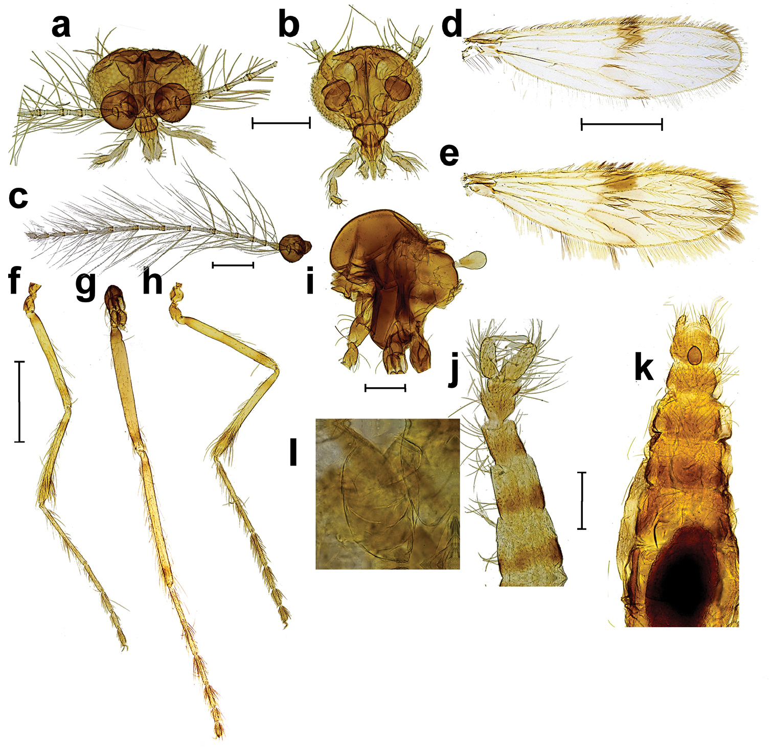 Figure 1; Corethrella oppositophila Kvifte & Bernal, sp. n., male and female a male head b female head c male antenna d male wing e female wing f hind leg of female g mid leg of female h fore leg of female i thorax of female j male abdomen k female abdomen with blood meal l egg in female abdomen. Scale bars: 200 μm (a, b, c, i, j, k); 500 μm (d–g). Views: frontal (a, b), dorsal (d, e, j–l), posterior (f–h).